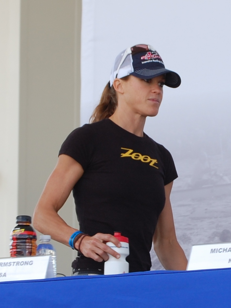 Ironman 70.3 Florida, a 2,800 participant event, taking place at Lake Eva Park in Haines City, Polk County, Central Florida.